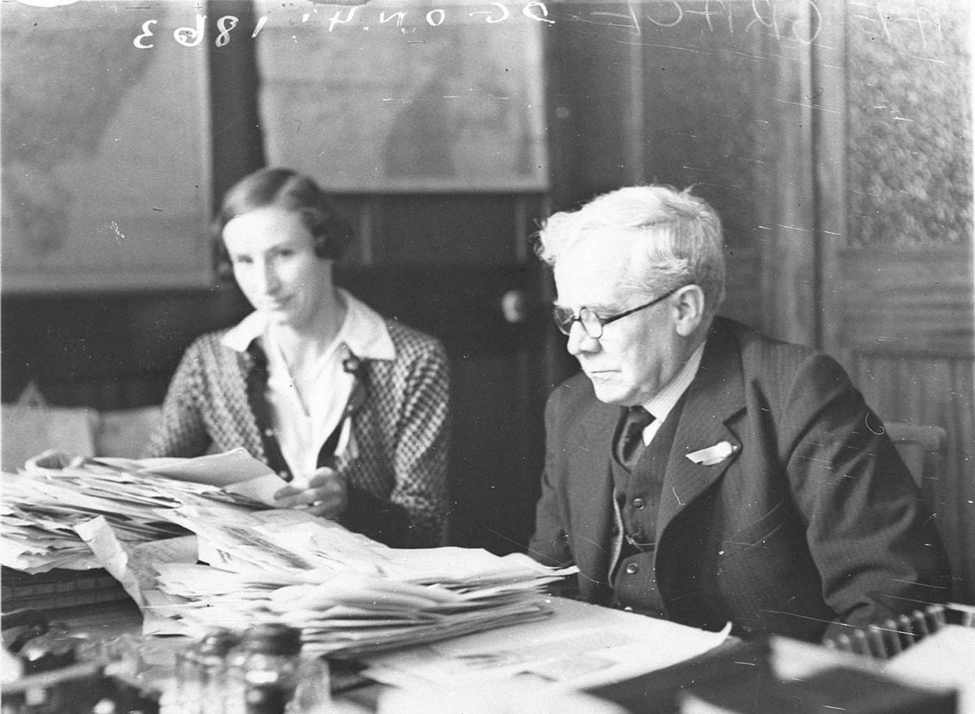 Mr A.E. Grace (Mick's father), the head of Grace Bros. department store, and his secretary in his office